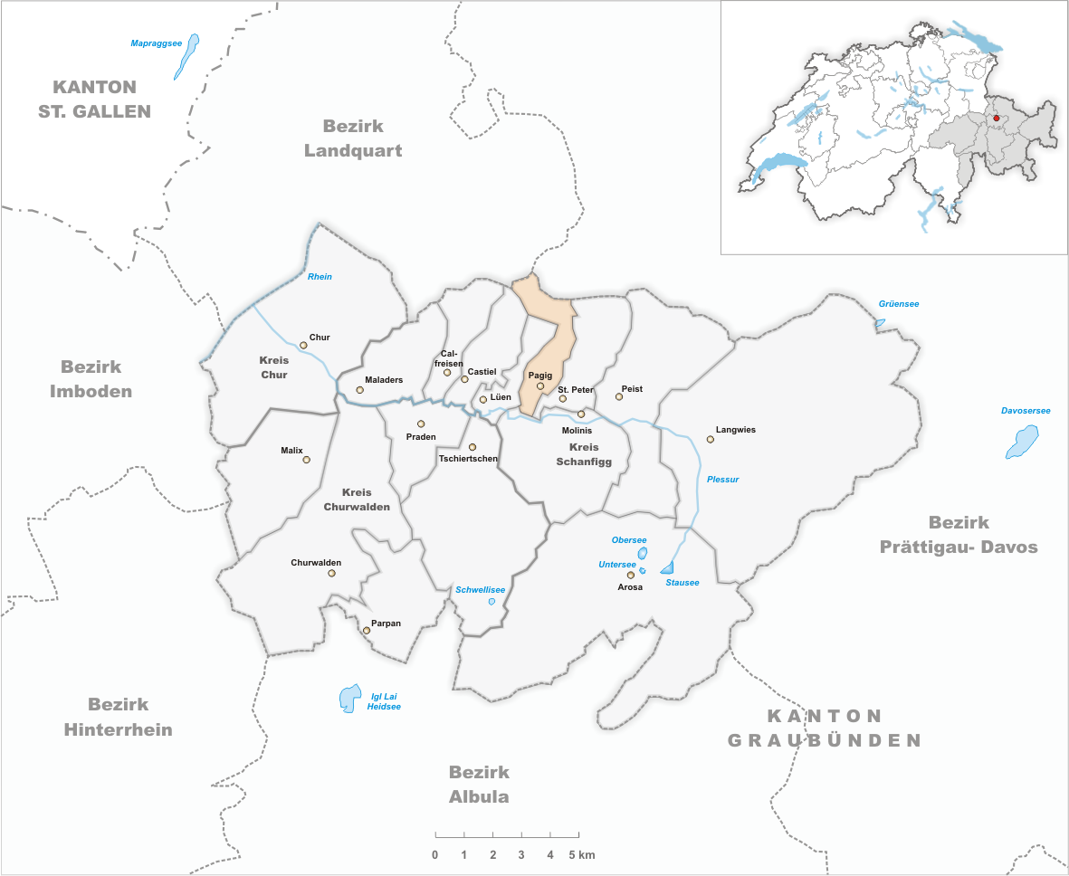 Municipality Pagig